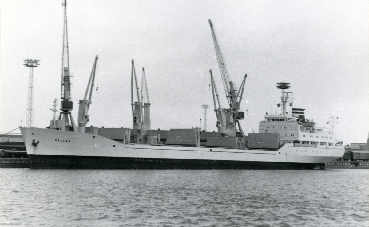 PALLAS (IMO 7039206) built at Rauma-Repola O/Y, Raumo, in 1971 (№ 197), photo by Pietikäinen, Matti, collection of Boman, J. Robert (1926 - 2002) owned by Sjöhistoriska museet.